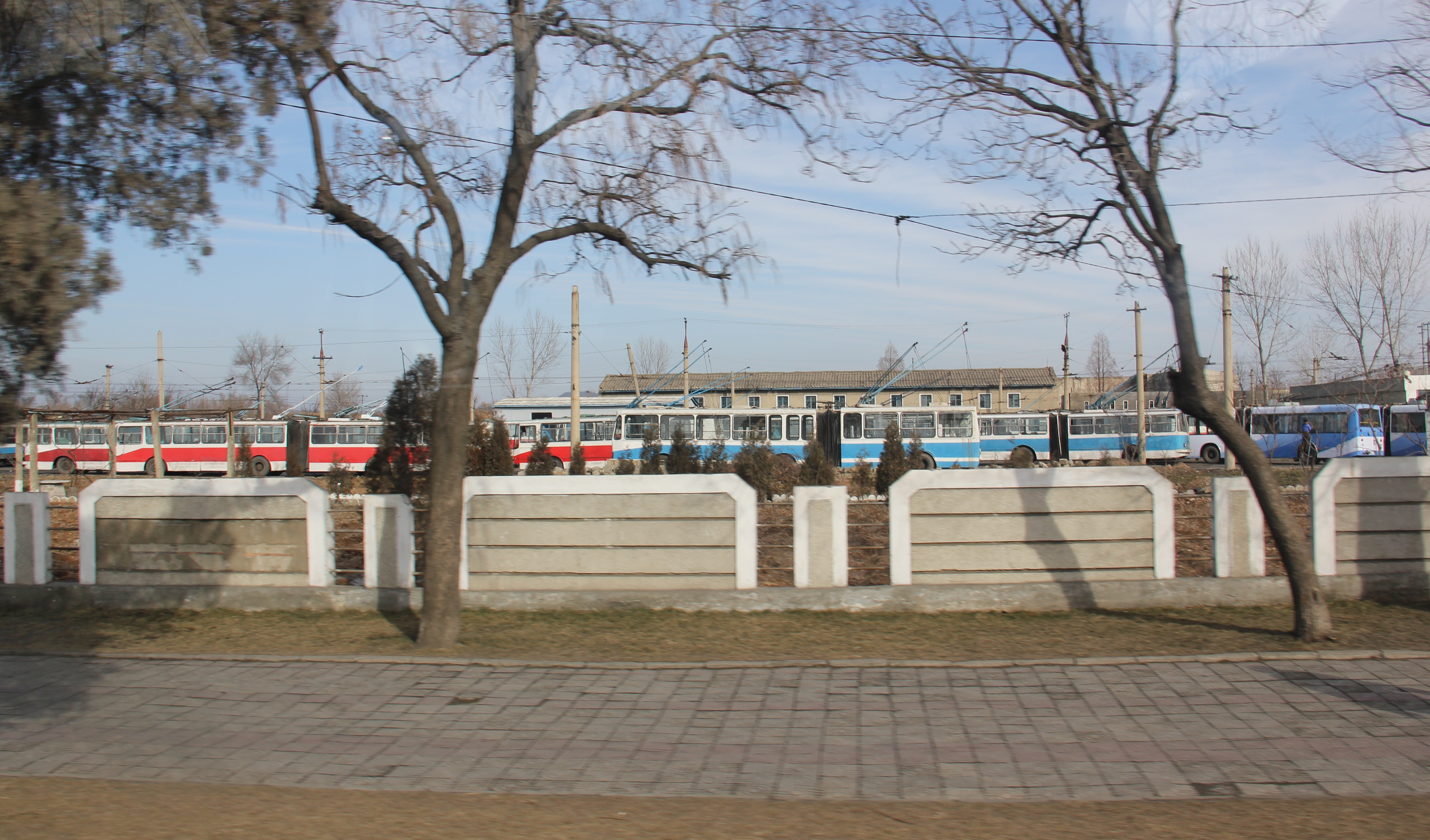 Trolley bus storage?